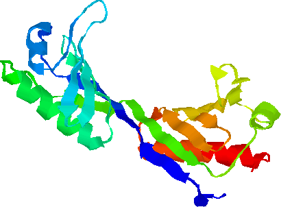 Cartoon of the TATA binding protein structure. By Richard Wheeler (Zephyris)